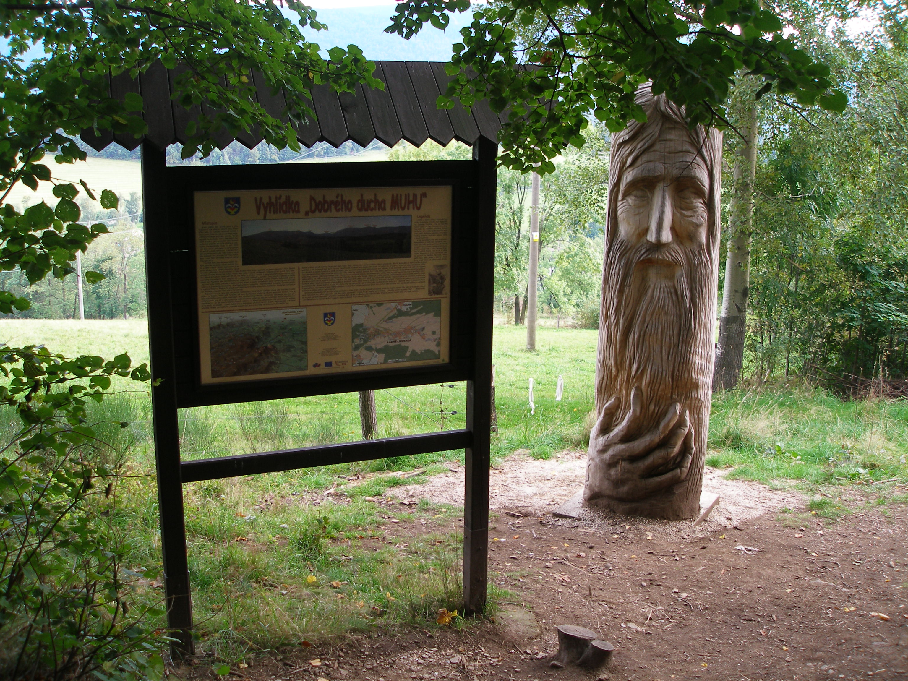 Vyhlídky nad Libverdou, Vyhlídka Dobrého ducha MUHU (all view).